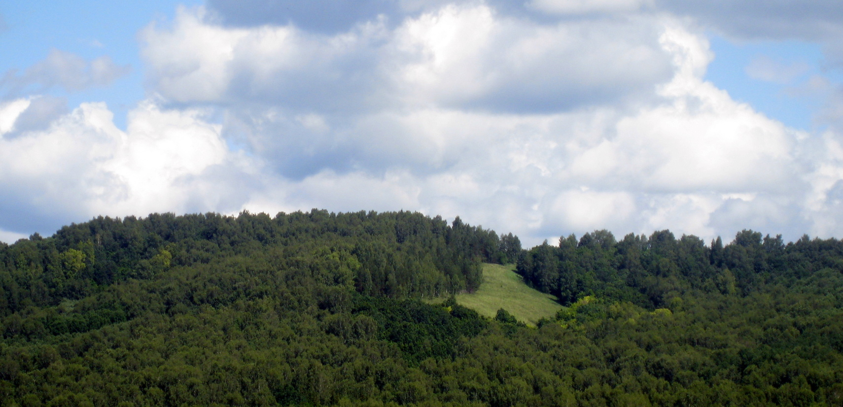 Bavly hills